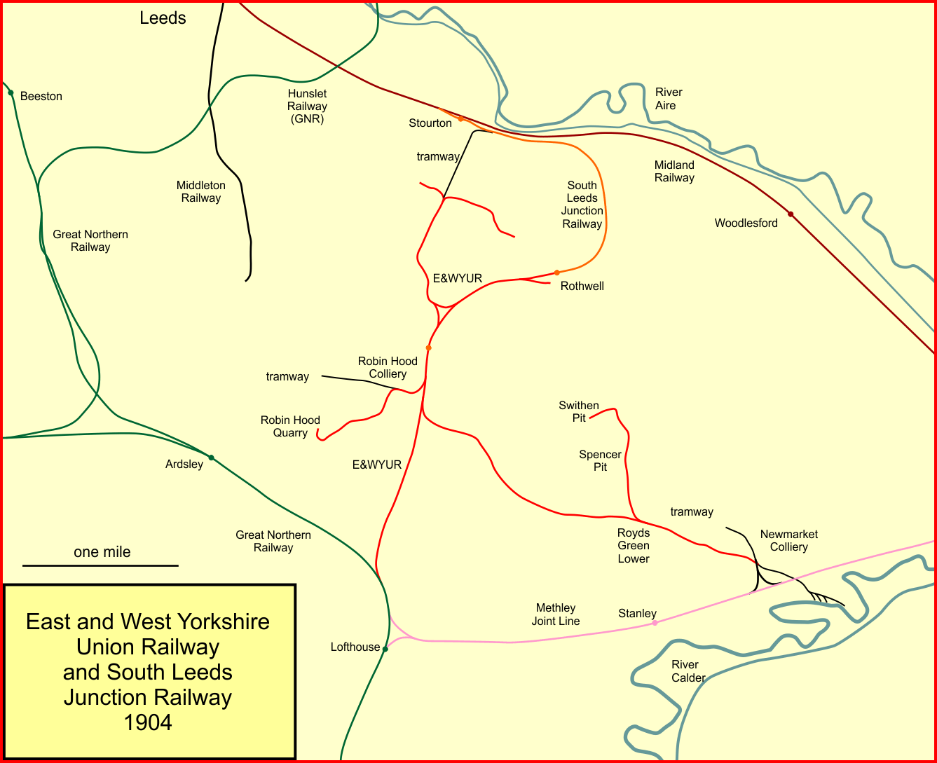 System map of the East and West Yorkshire Union Railway in Leeds, West Yorkshire, England, in 1904